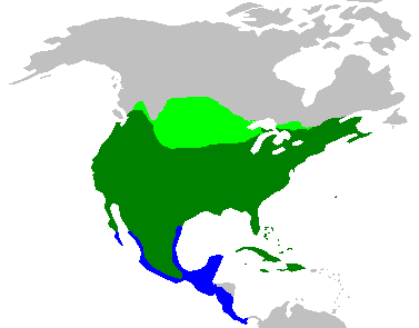 The range of the Mourning Dove